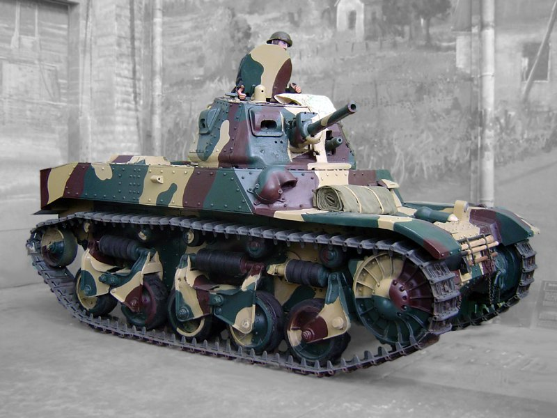 AMC 35 on display at the Musée des Blindés at Saumur. The picture taken August 8, 2006.